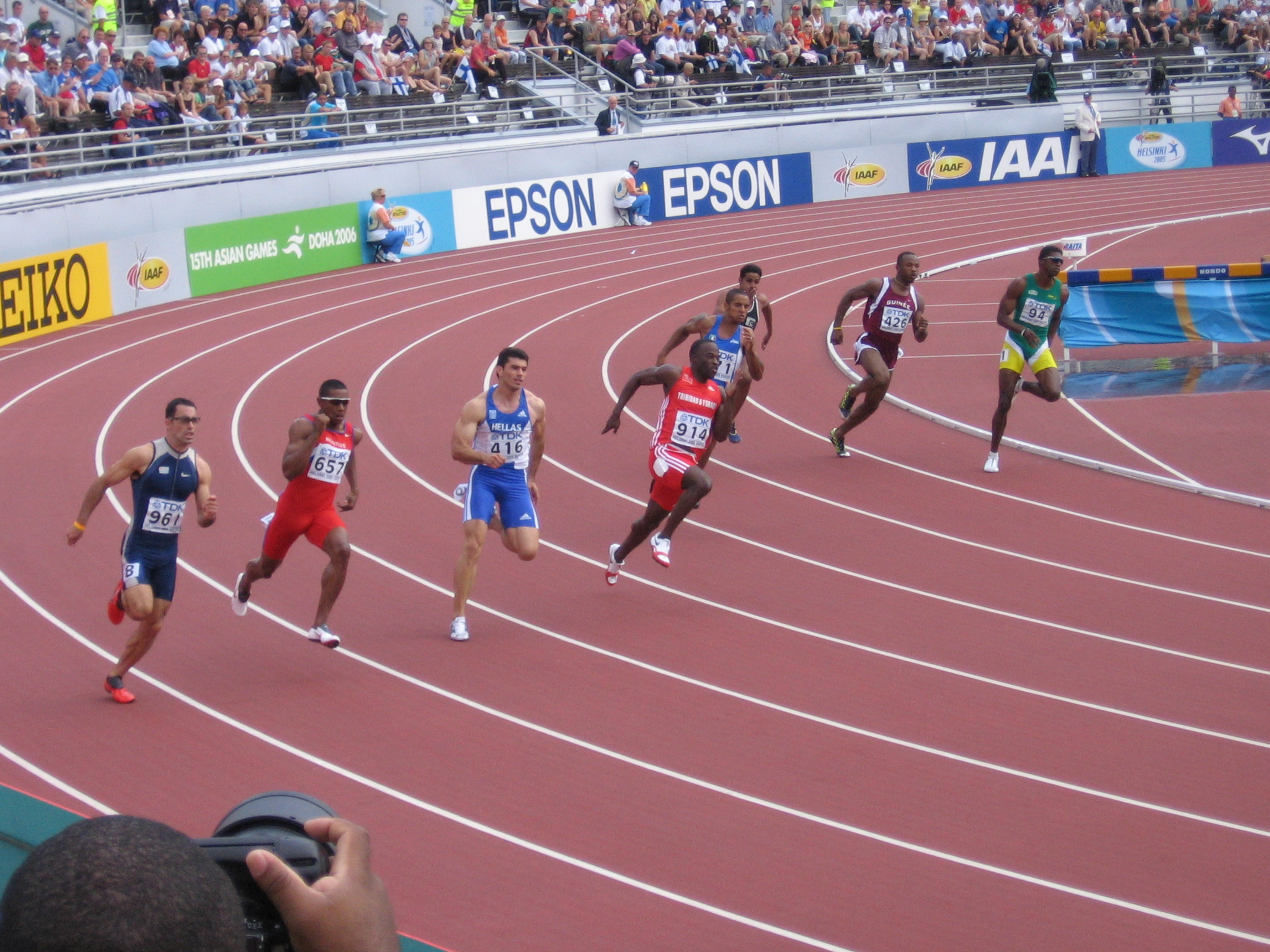 A 200 metres run at the 2005 Athletics World Championships in Helsinki.